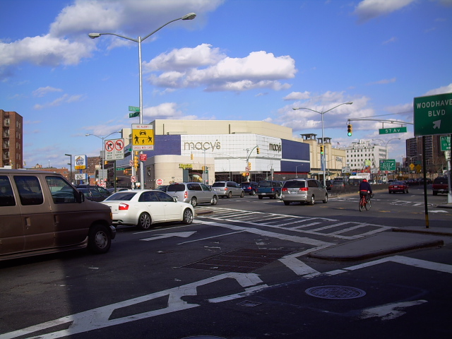 Looking east across Queens Boulevard and 57 Avenue in Elmhurst, Queens NY.